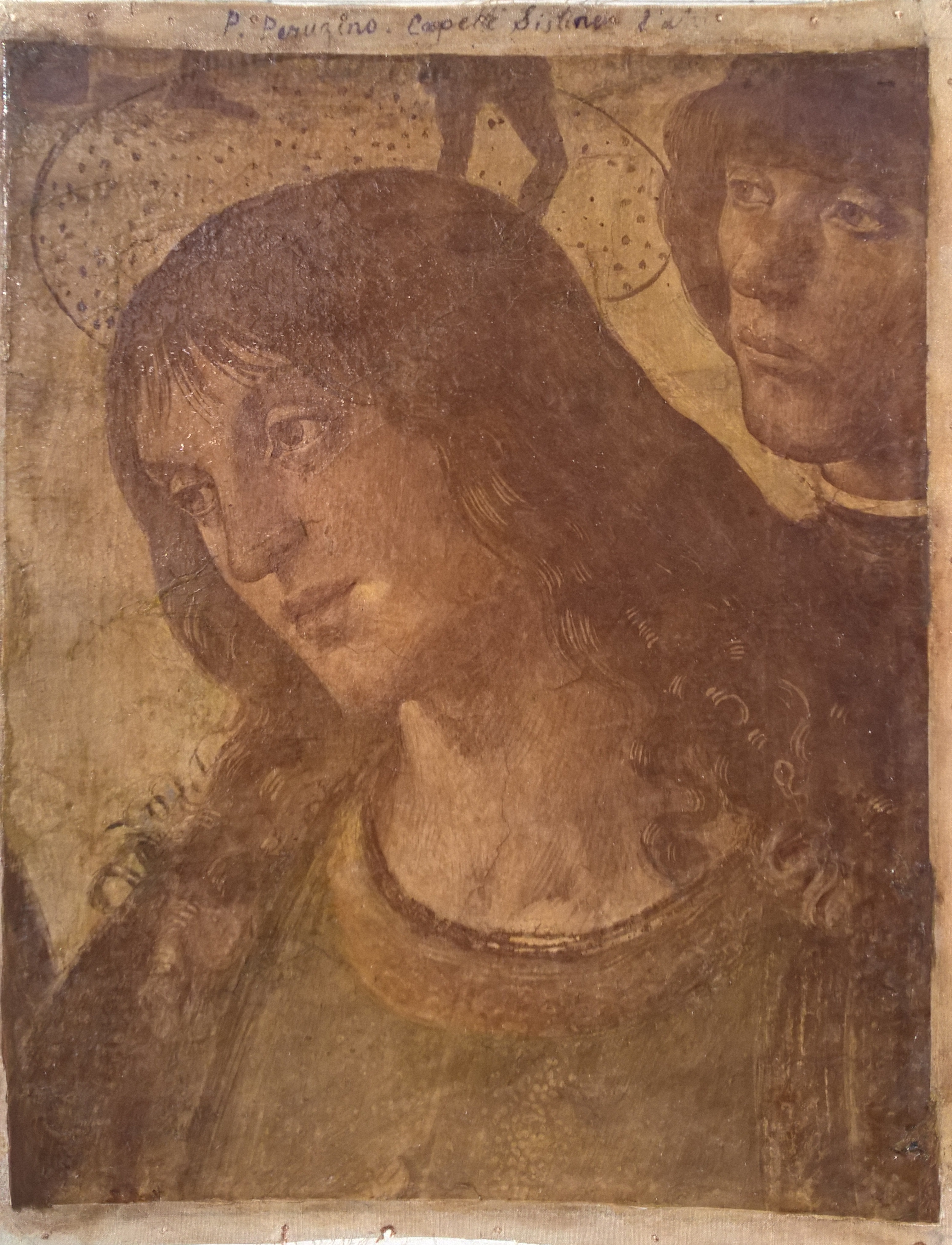 D.Dobrovich"The head of John the Baptist by Perugino"